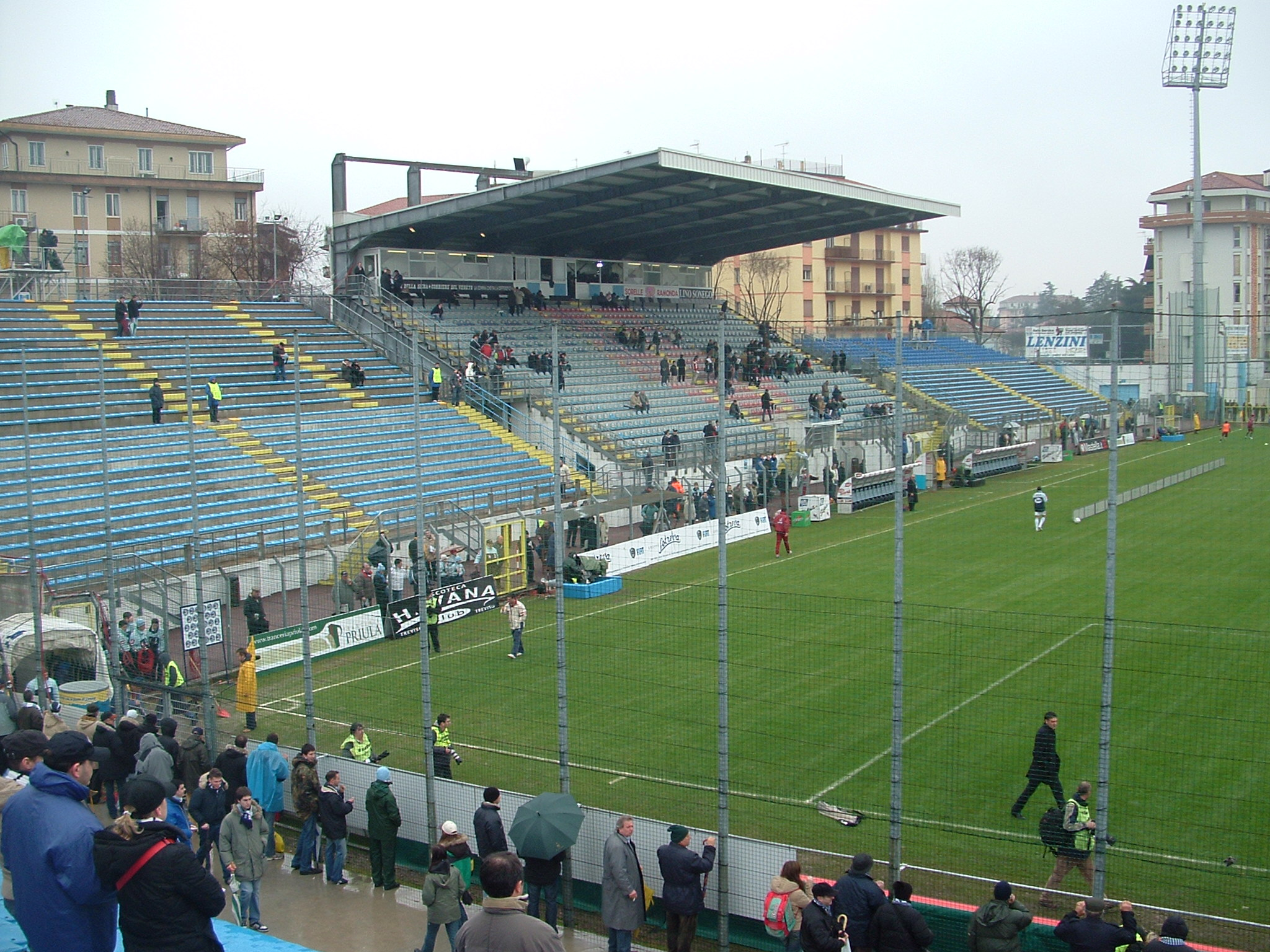 Stadium and Main Stand of the Stadium O.Tenni in Treviso